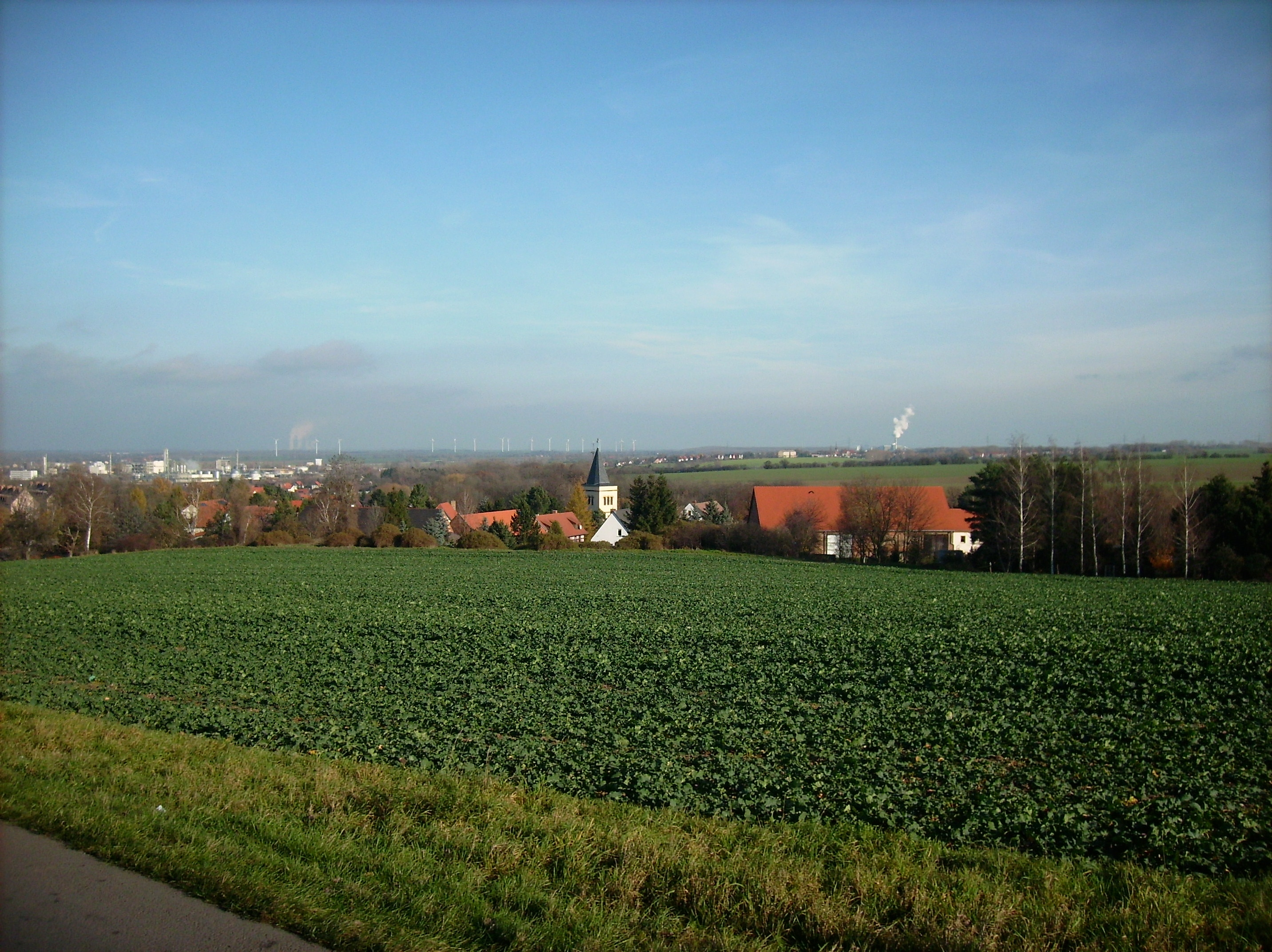 View of the village of Burtschütz (Elsteraue, district of Burgenlandkreis, Saxony-Anhalt)